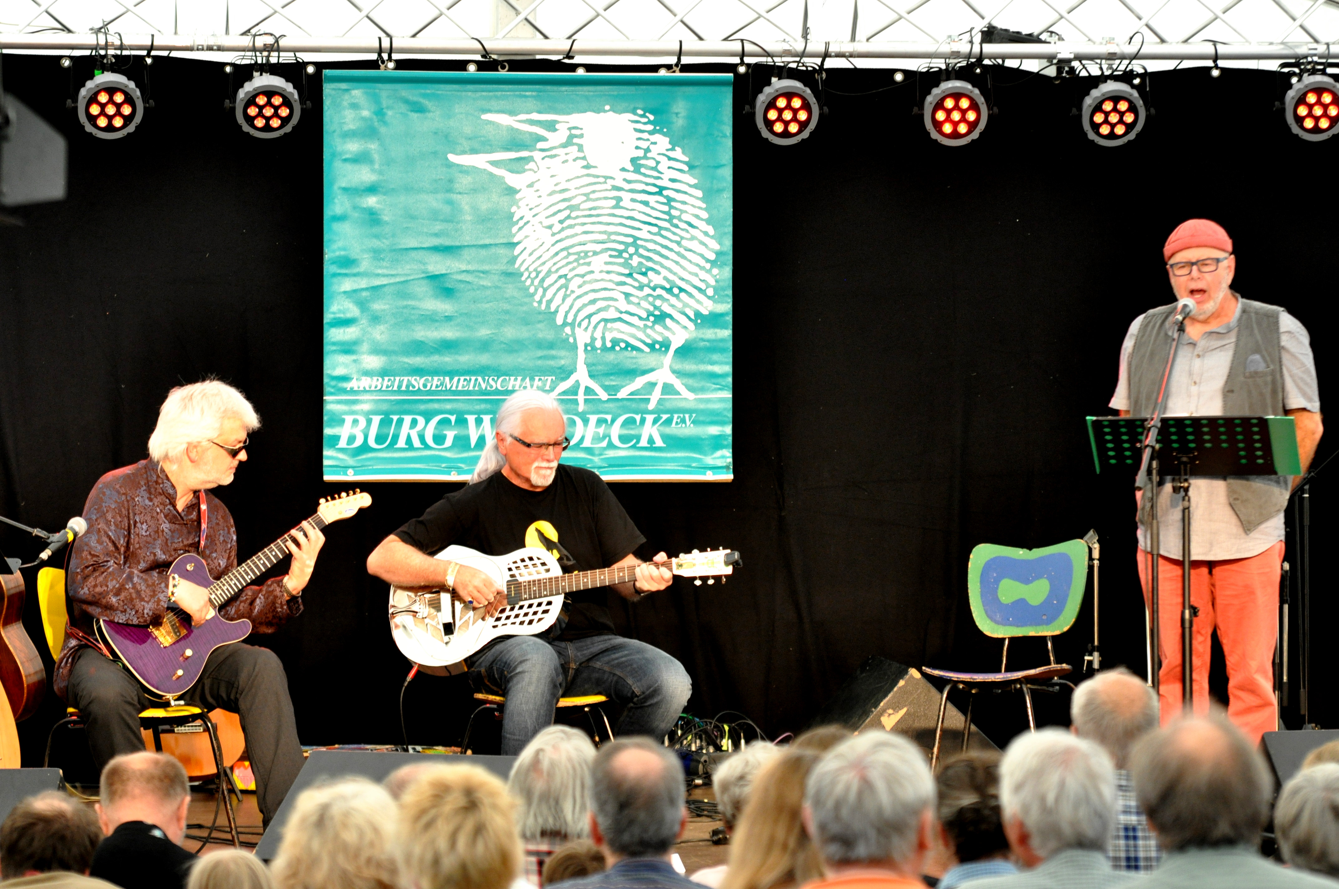 Michael Bauer with Adax Dörsam and Wolfgang Schuster (DEU) appearance at the 2017 song festival at Burg Waldeck Castle, Rhineland-Palatinate, Germany Festivalsommer This photo was created with the support of donations to Wikimedia Deutschland in the context of the CPB project "Festival Summer".